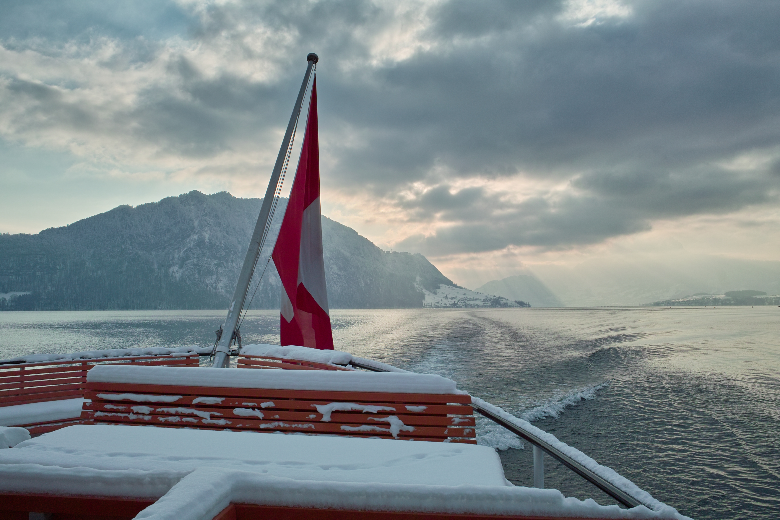 Lake Lucerne passenger ship MS Gotthard, built in 1970.